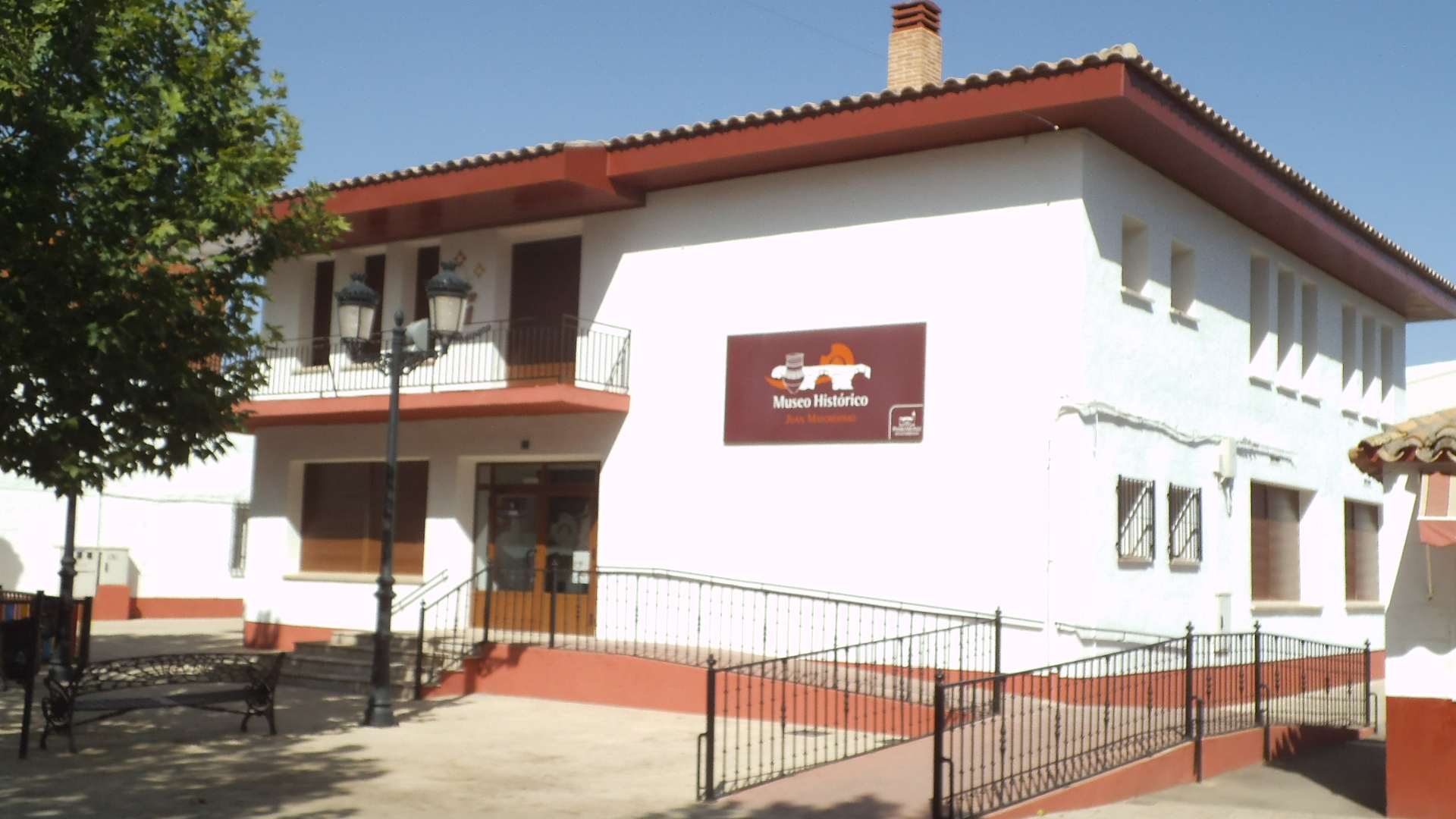 Historical Museum in Pedro Muñoz